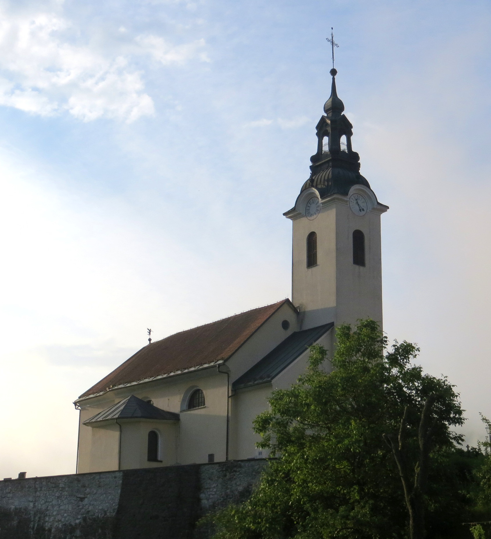 Saint George's Church in Nevlje, Municipality of Kamnik, Slovenia